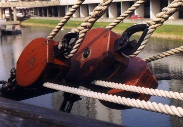 Bracing boom of the "Seute Deern", Bremerhaven, Germany